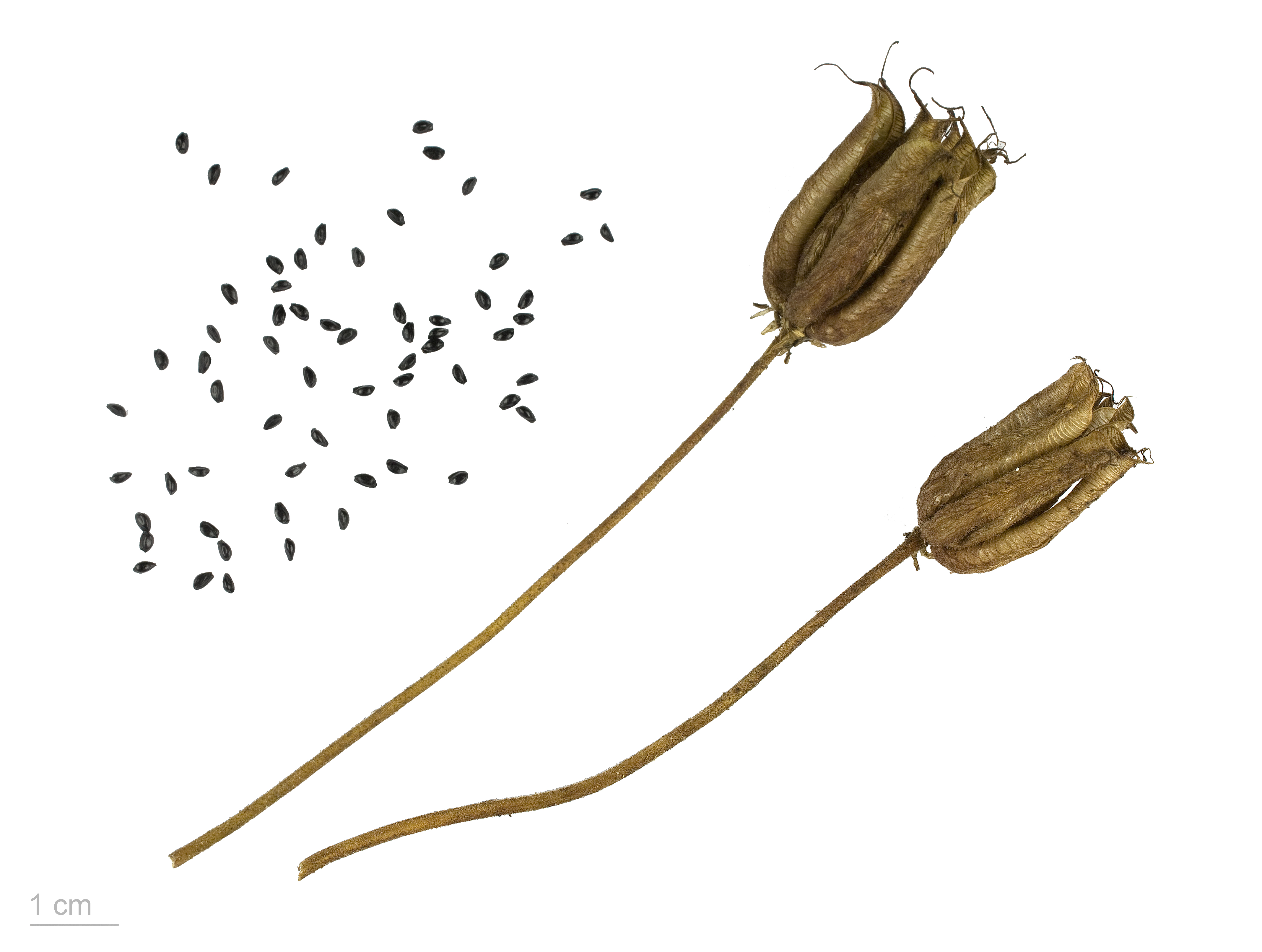 Aquilegia vulgaris, European columbine, fruits and seeds